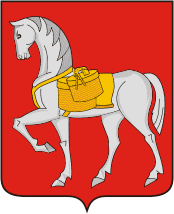 Konosha rayon (Arkhangelsk oblast), coat of arms